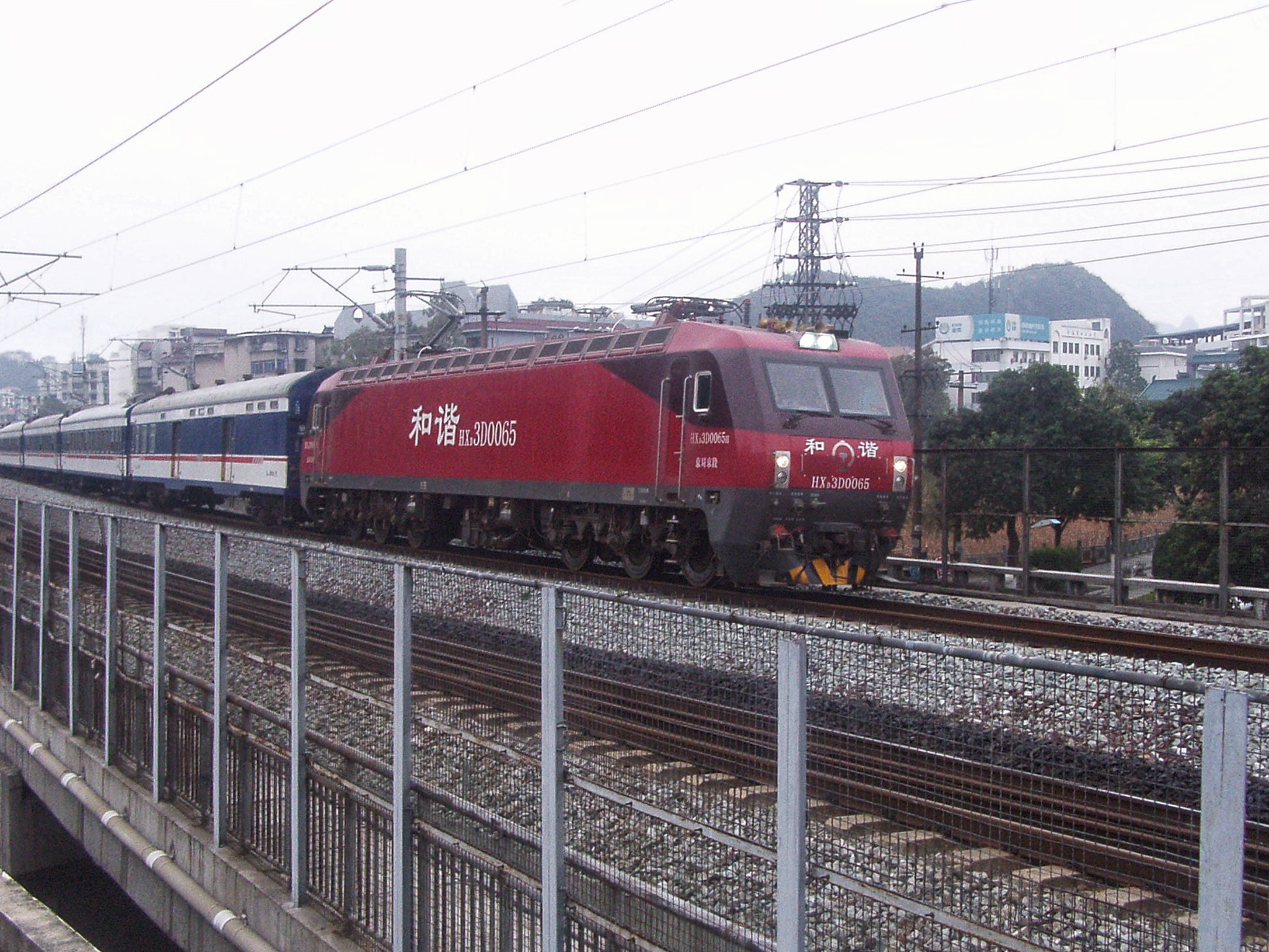 China Railways HXD3D 0065 with the last Dongdang to Beijing Through Train in Guilin, China.